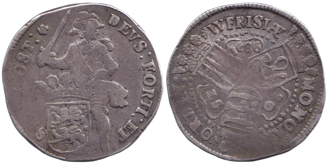 Coin 1 daalder, 1686 - Netherlands, minted in West Friesland. Silver, diameter 35-36 mm, thickness 1.5 mm, weight 15.9 g. Nominal 30 stuivers.